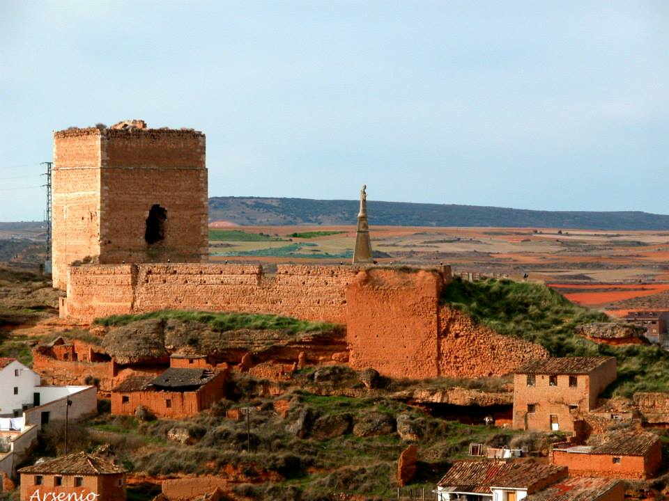 Castillo de Arcos de Jalón